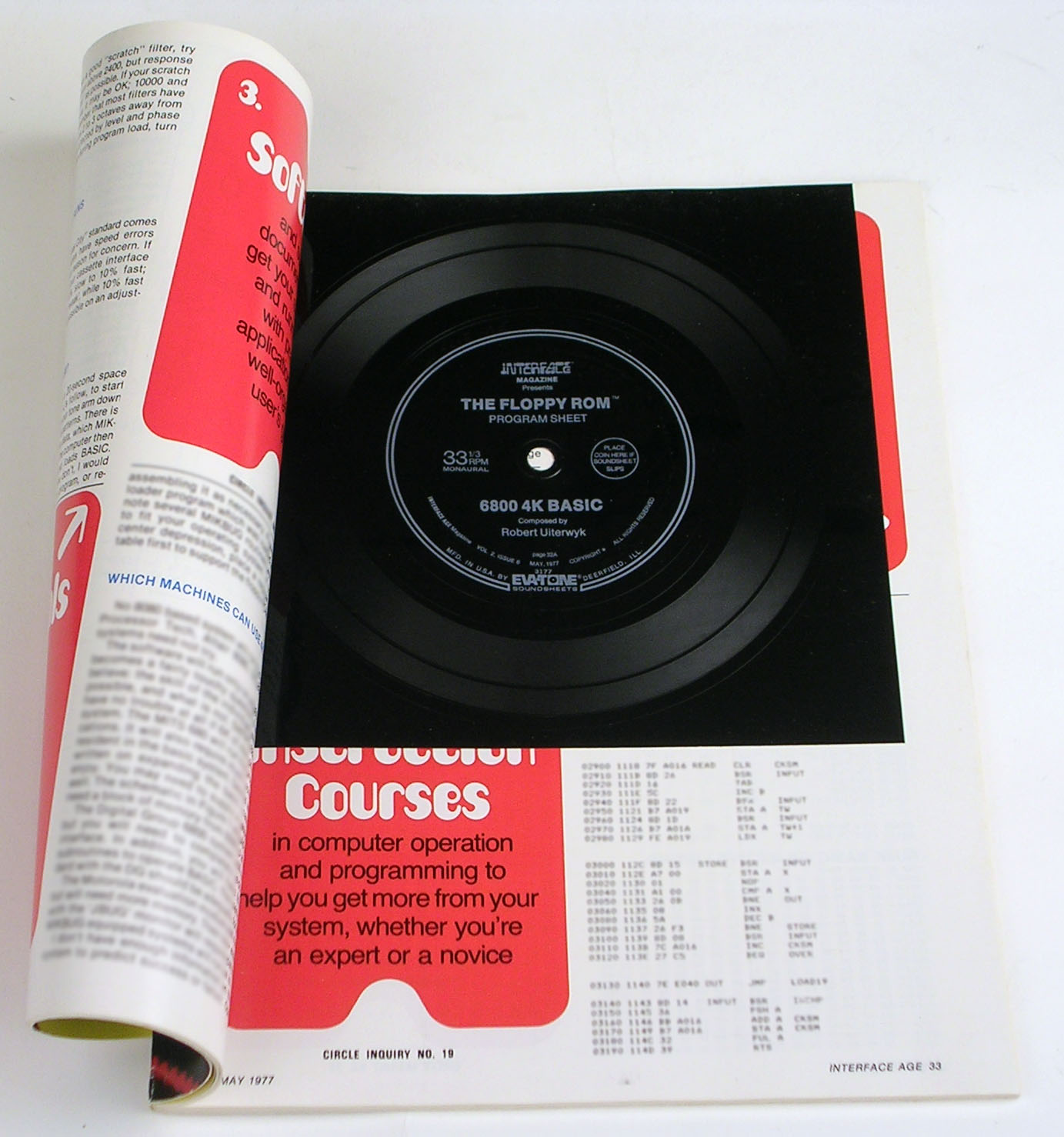 A Floppy-ROM vinyl record in the May 1977 issue of Interface Age magazine. The 6 minutes of audio held Robert Uiterwyk's 4K BASIC in the Kansas City Standard format. The program was for a 6800 microprocessor system such as the SWTPC 6800. Magazine provided by Robert Uiterwyk. Photo by Michael Holley, 22:04, 18 November 2005. The record is an Evatone sound sheet, invented by Richard Evans in 1962. They were produced until 2000. The sound sheets were often delivered in magazines. This image shows the mechanical properties of binding a record into a magazine.